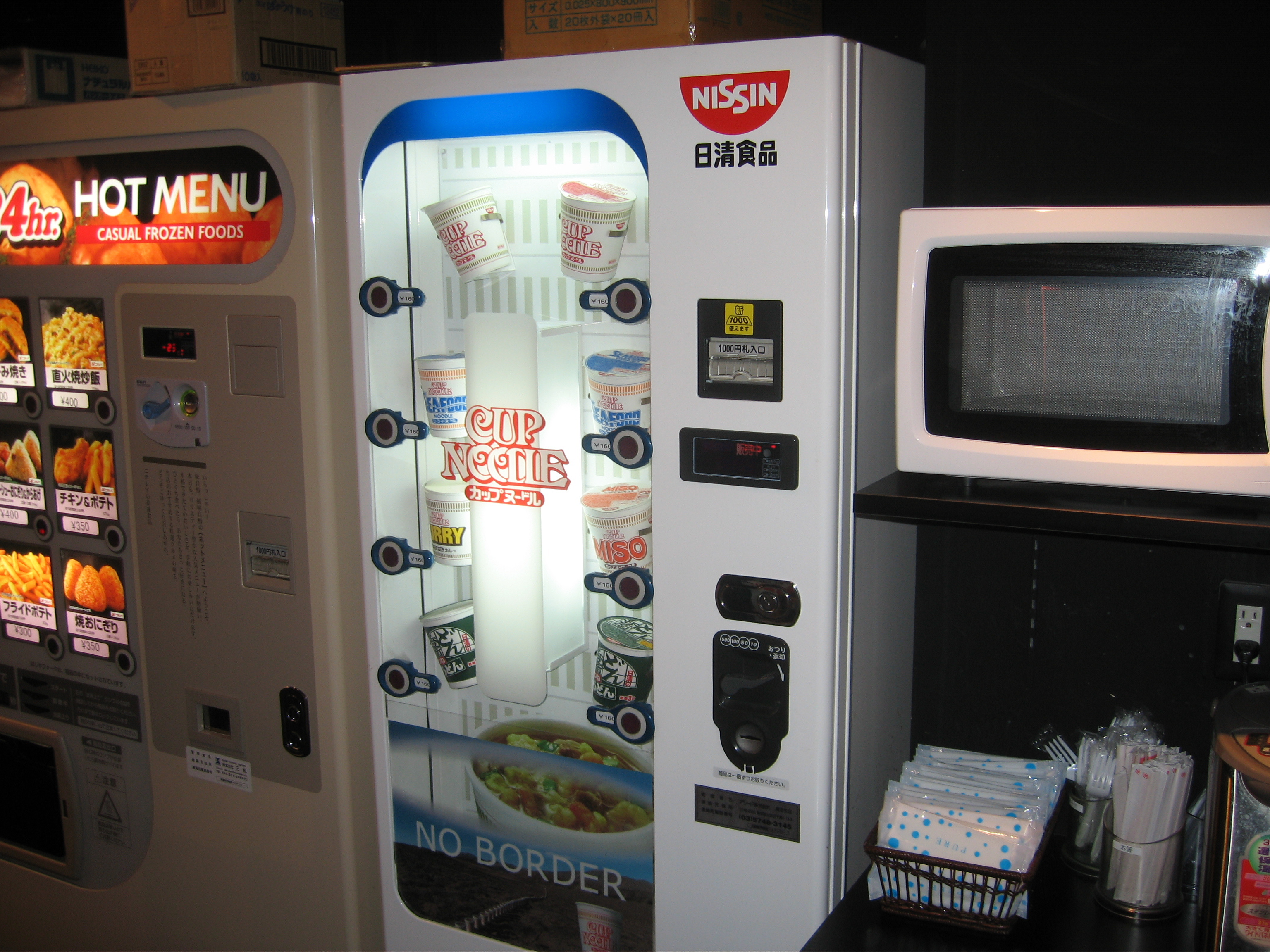 Instant noodles vending machine